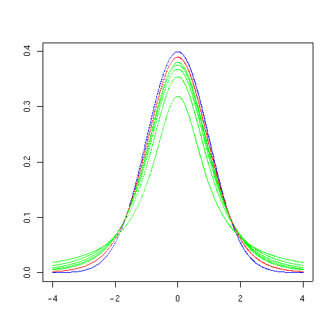 plot of t-distribution, 10 df